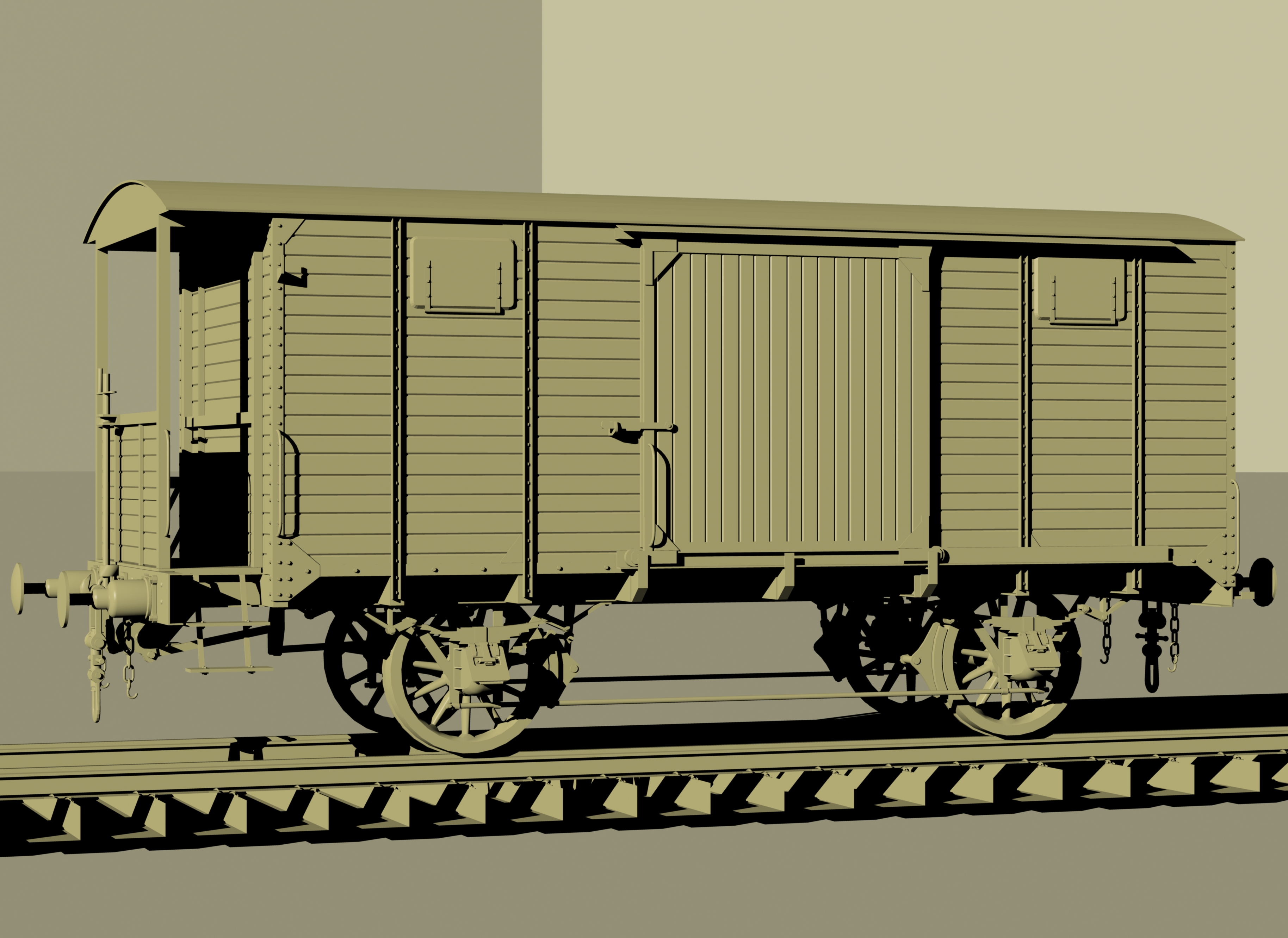 Крытый товарый вагон типа НТВ (нормальный товарный вагон), образца 1910г. Тара: 427(пуд); Грузъ: 750(пуд), (40 человек или 8 лошадей); 3ds_max модель, быстрый (пробный) рендер. исходник для Trainz.